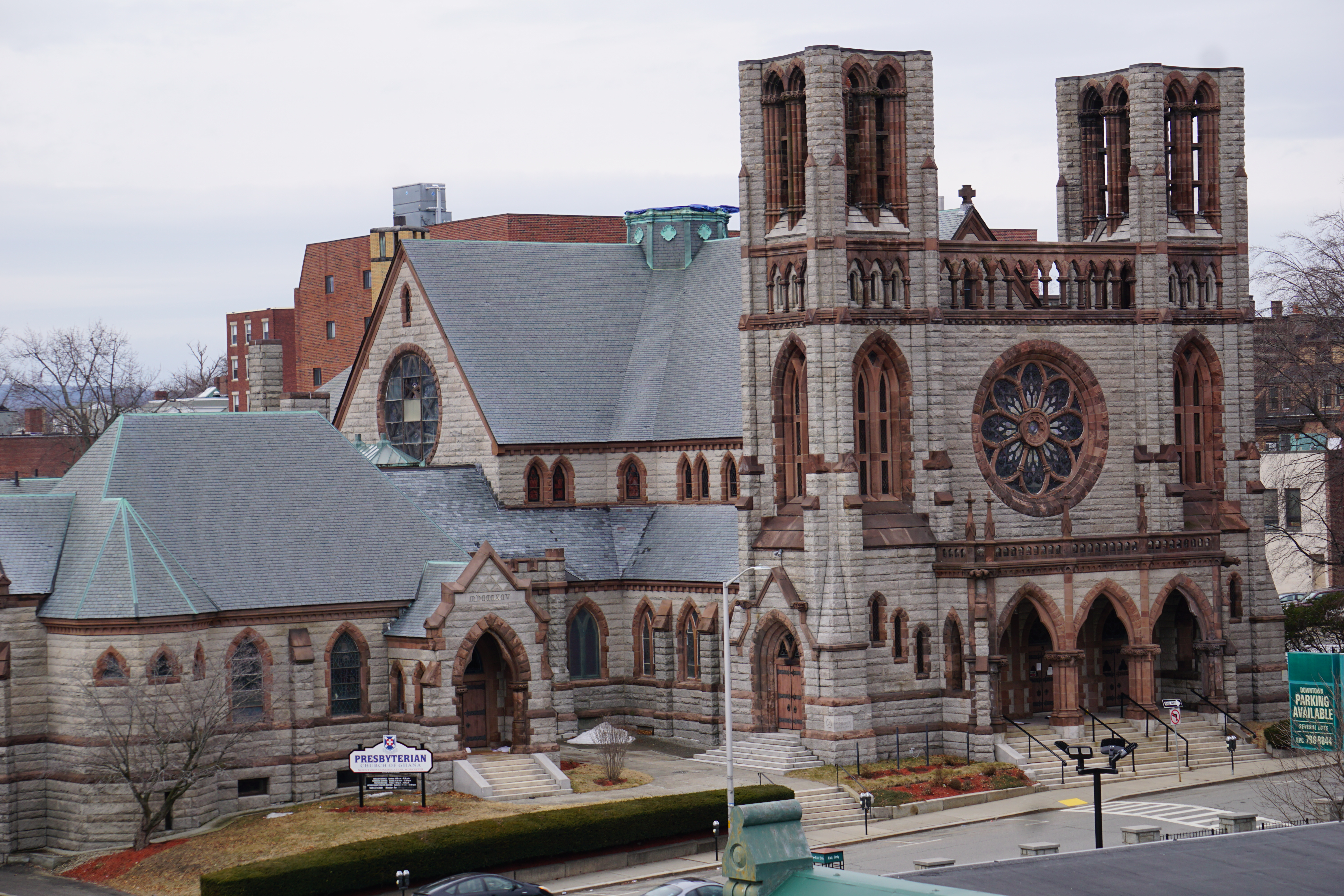 Union Congregational Church at 5 Chestnut Street in Worcester, Massachusetts (USA) on Feb 16, 2018.